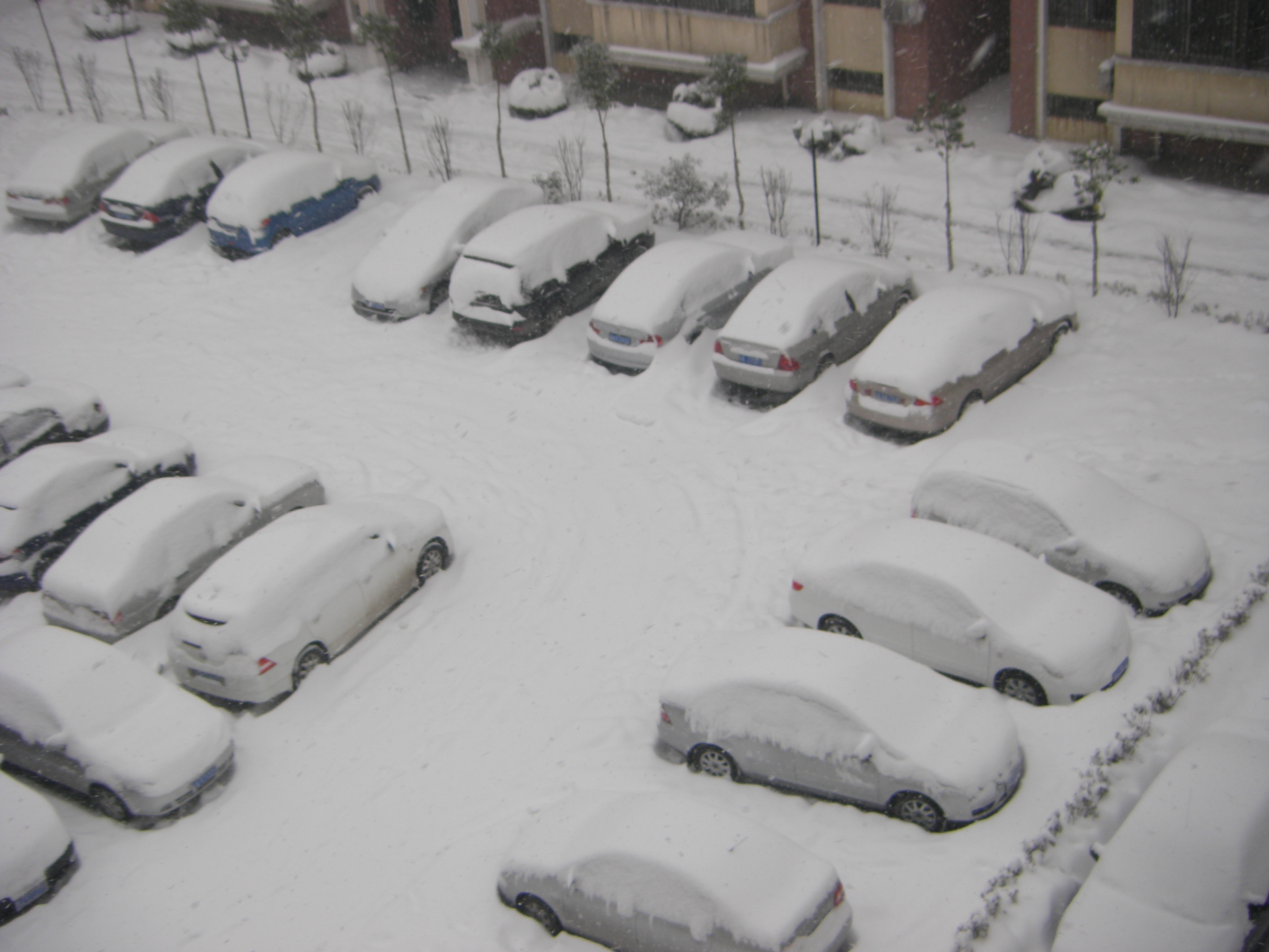 The effect of the 2008 Chinese winter storms in Hefei, Anhui Province, China